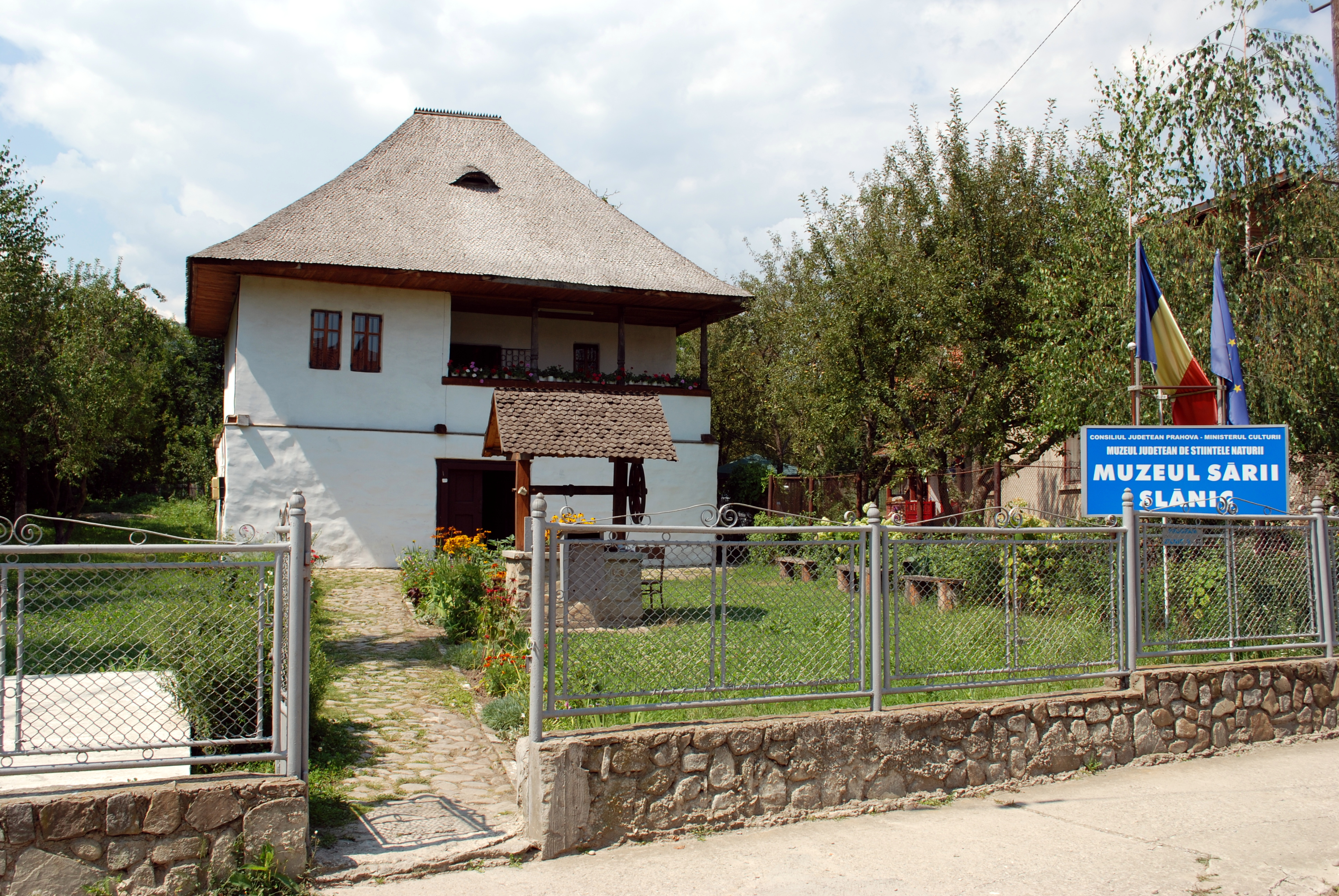 The Salt Museum in Slănic, Romania